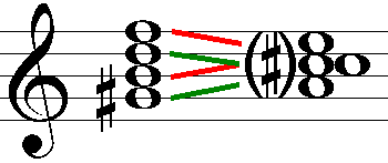 Resolution of the diminished seventh chord.